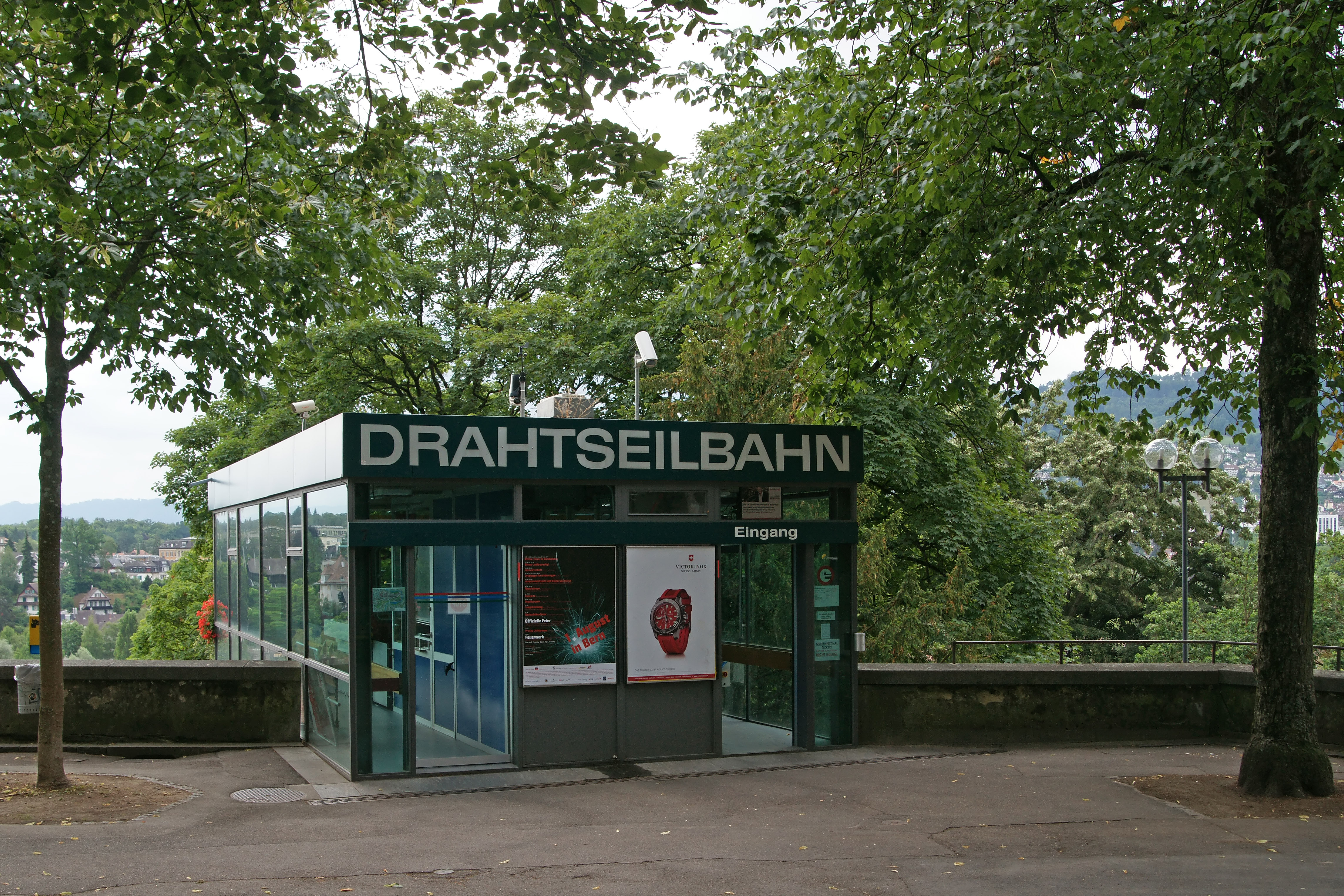 Marzilibahn funicular, Bern, Switzerland; upper station.